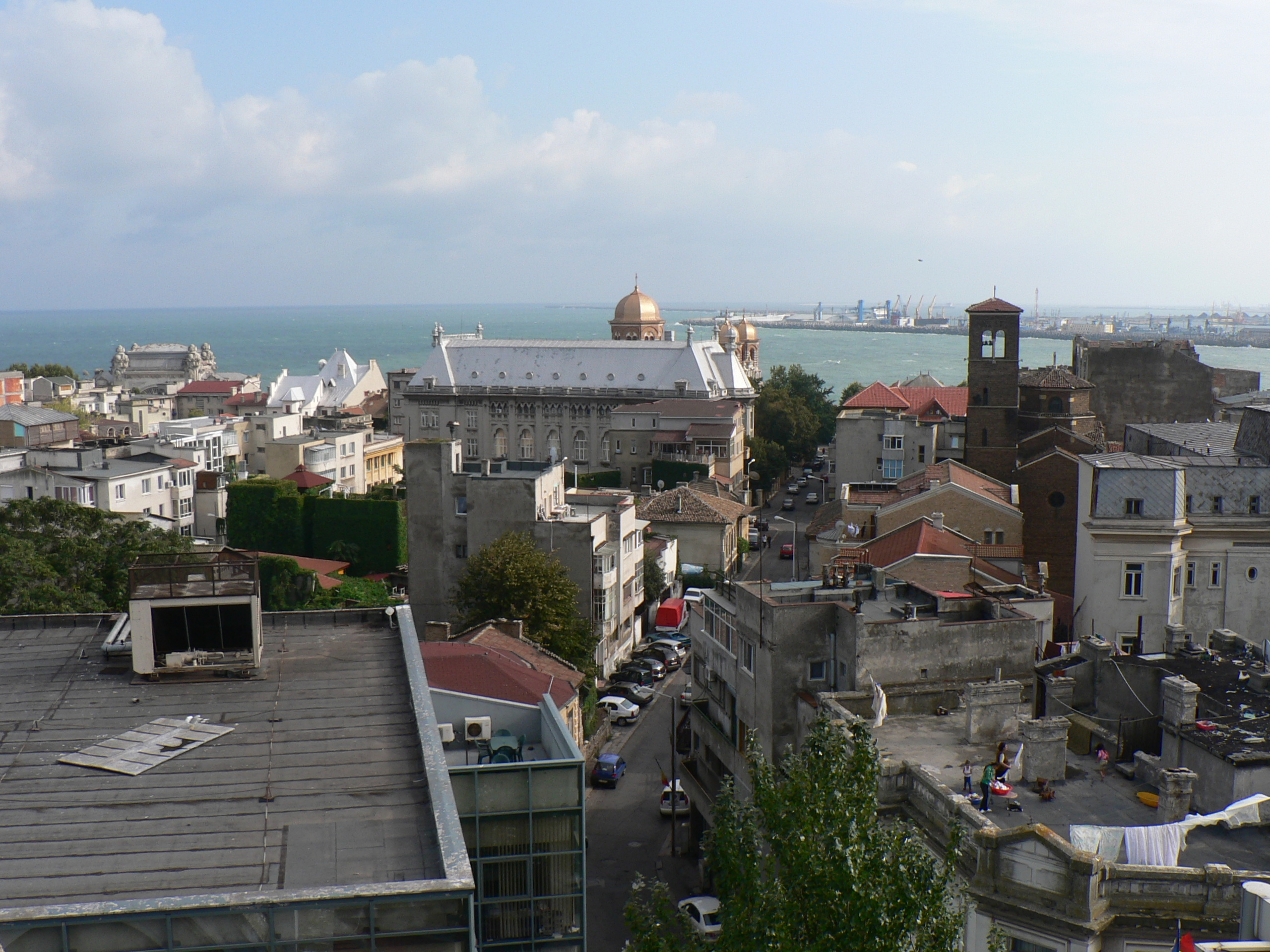 Black Sea seen from mosque in Constanţa